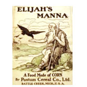 Box art for early Post Foods product later renamed Post Toasties